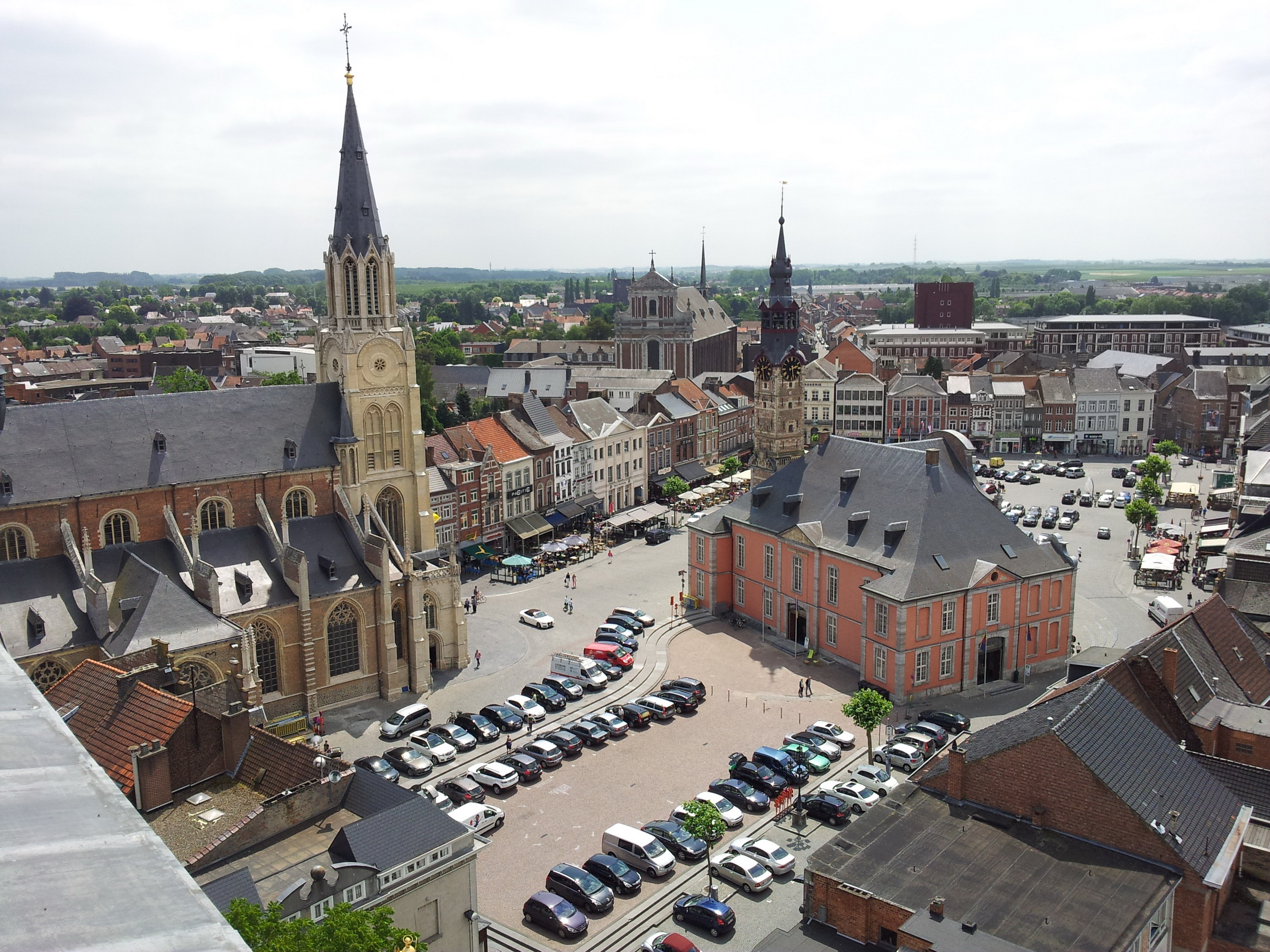 View towards the Southeast from the tower of the demolished church of the former Benedictine abbey in Sint-Truiden, Belgium. In the centre the Grote Markt, the main square in Sint-Truiden, with the church of Our Lady and the town hall.